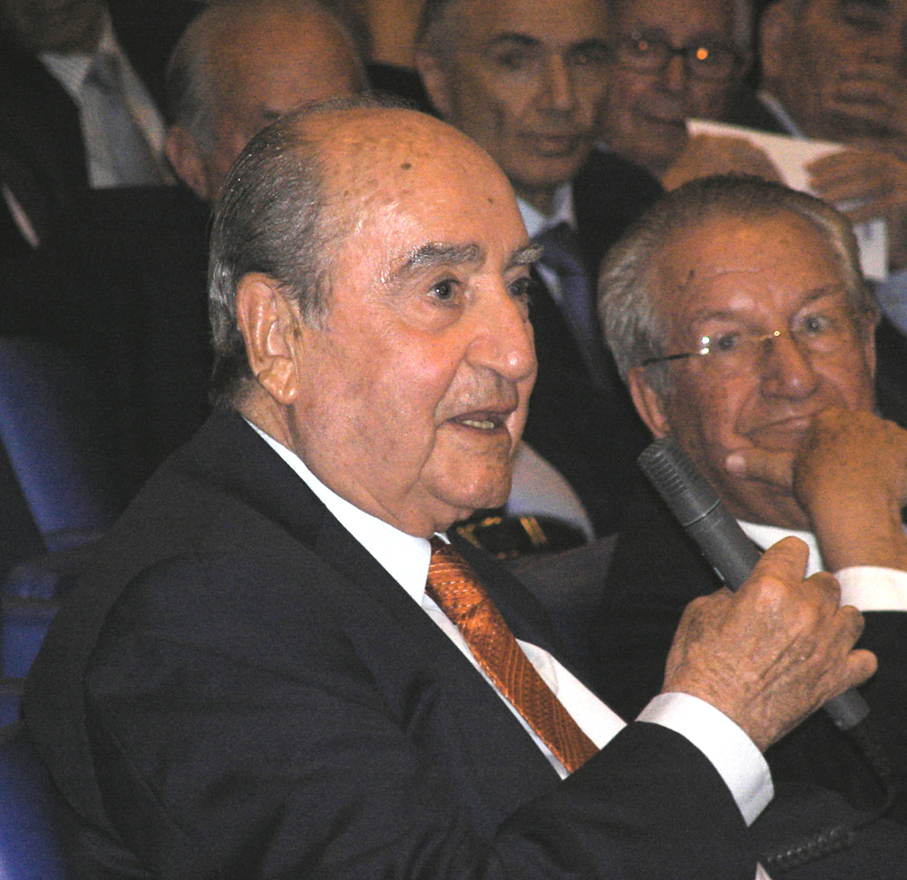 Constantine Mitsotakis (Greek: Κωνσταντίνος Μητσοτάκης or Konstantinos Mitsotakis) (born October 18, 1918), Greek politician. Το his right journalist Giannis Marinos.